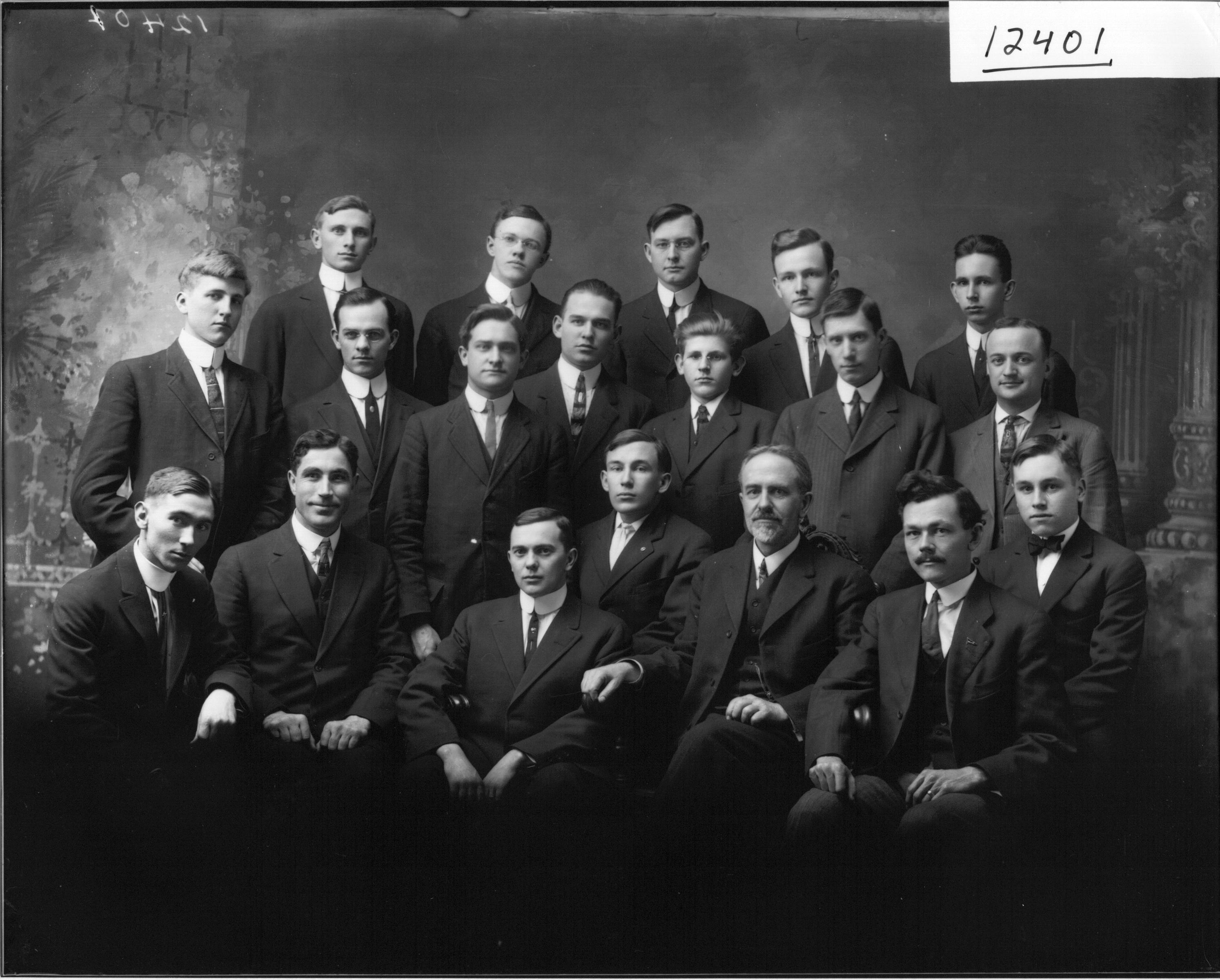 Persistent URL: Subject (TGM): Student organizations; Fraternities and sororities; Group portraits; Location: Oxford, Ohio